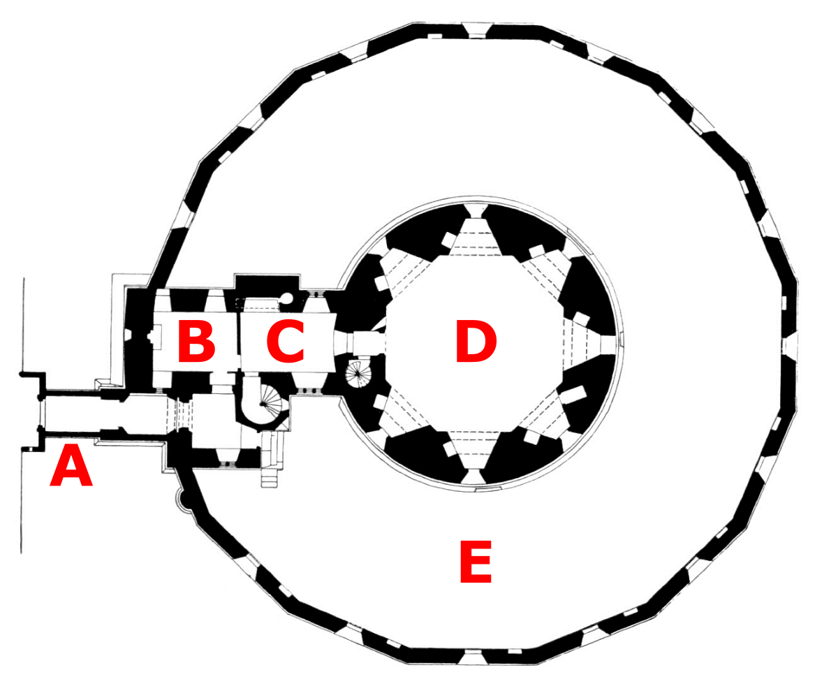 Pendennis keep labelled